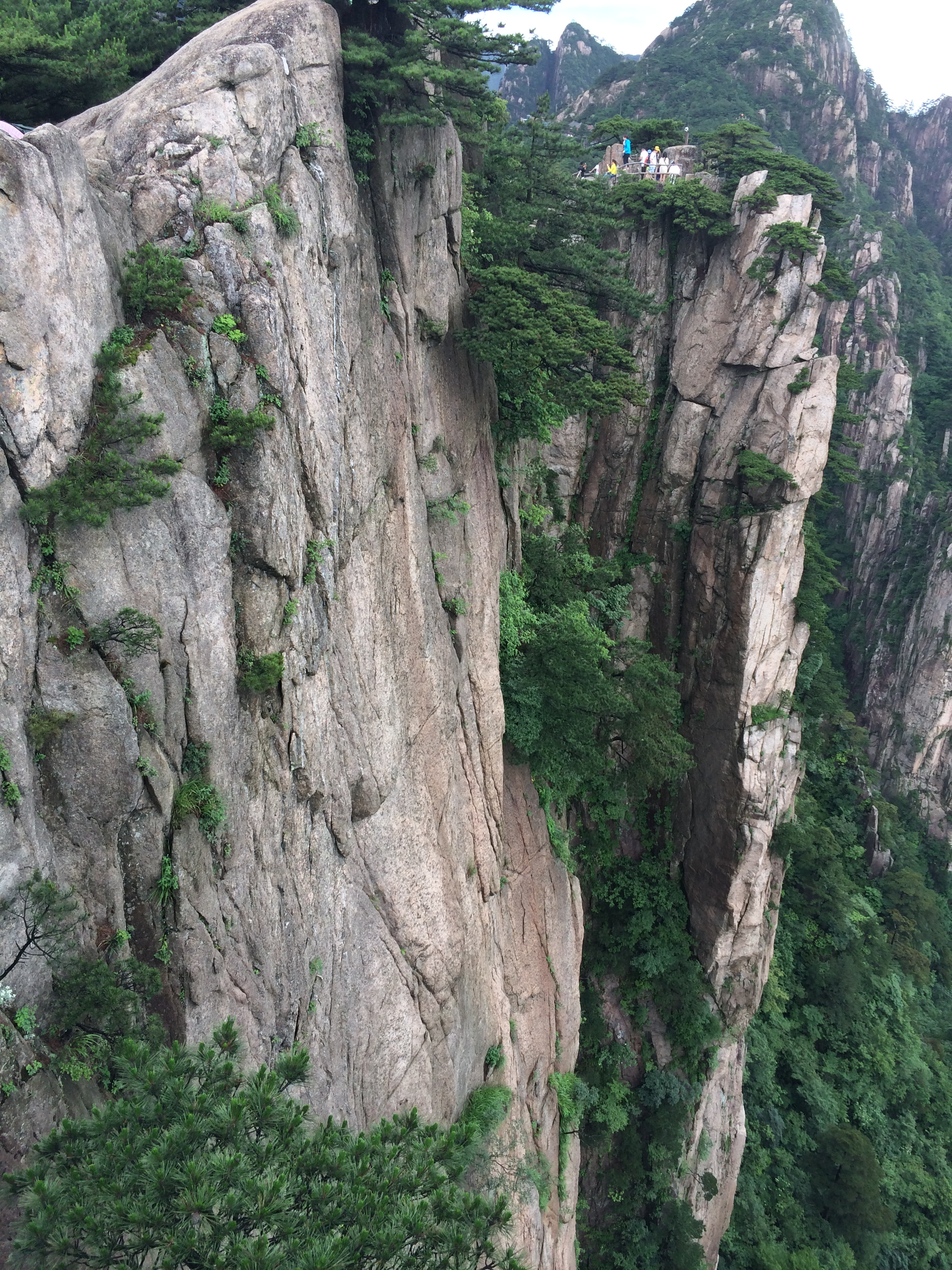 A steep cliff at Huangshan